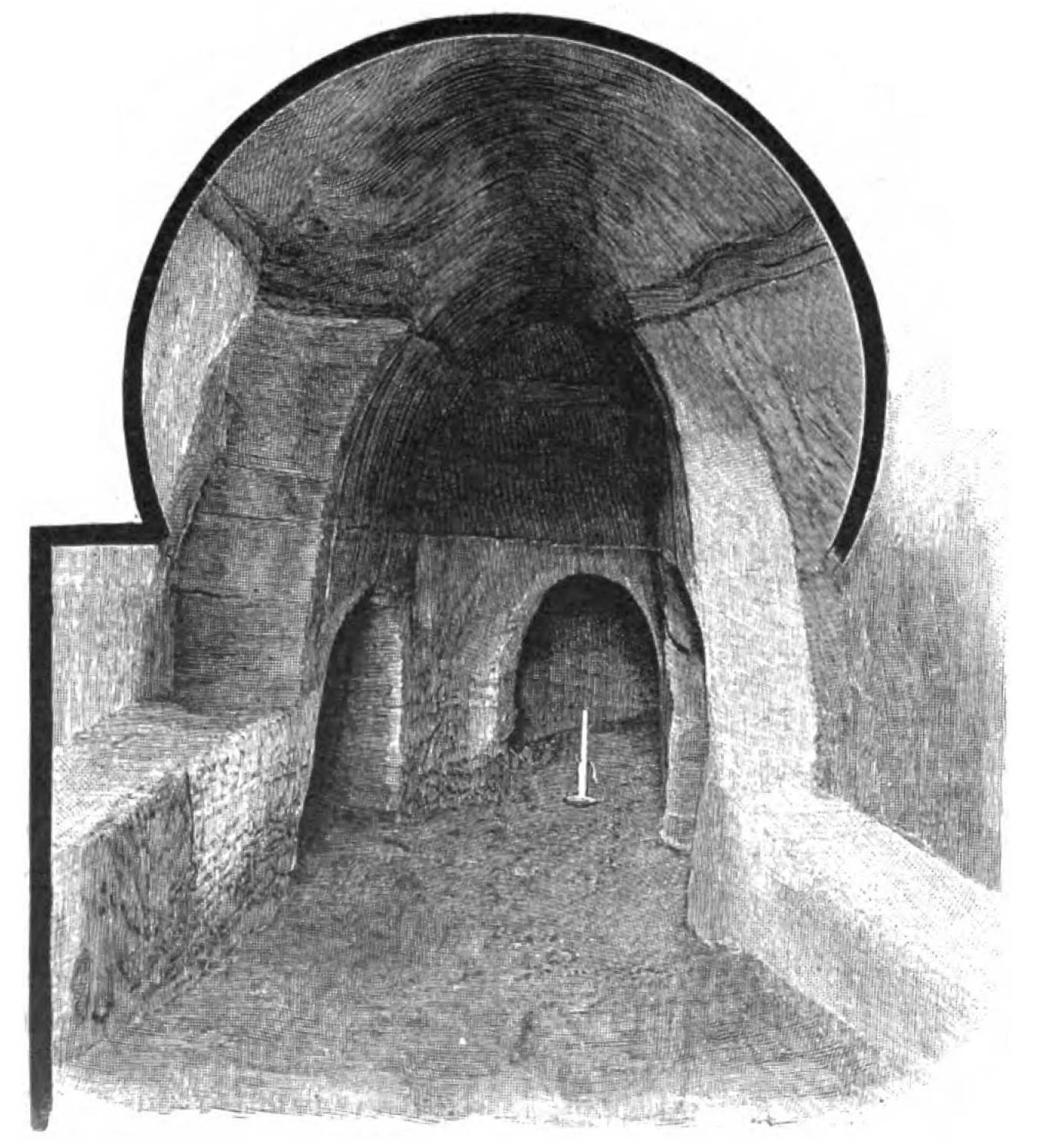 no caption